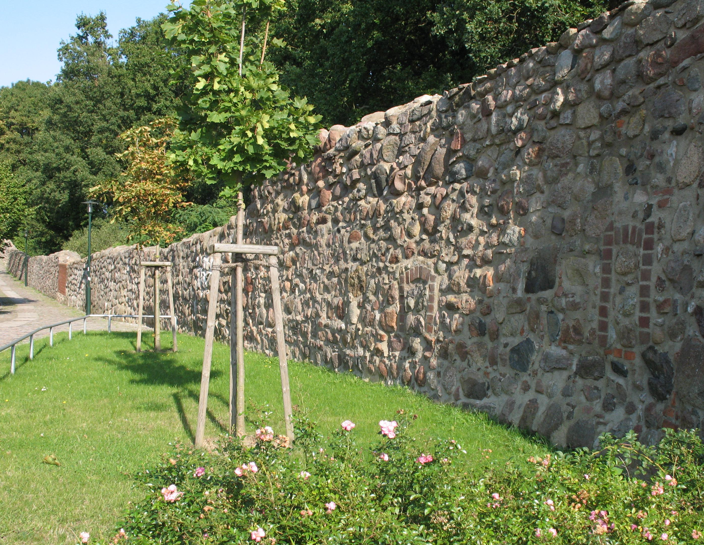 City wall in Woldegk in Mecklenburg-Western Pomerania, Germany